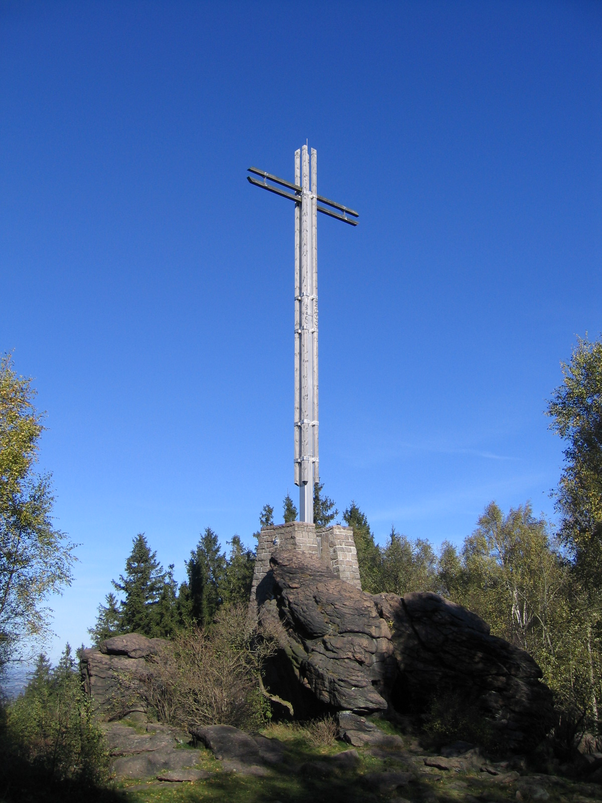 Cross of the German East (Kreuz des deutschen Ostens) by the Uhlenklippen crags southeast of Bad Harzburg, Harz mountains, Germany.